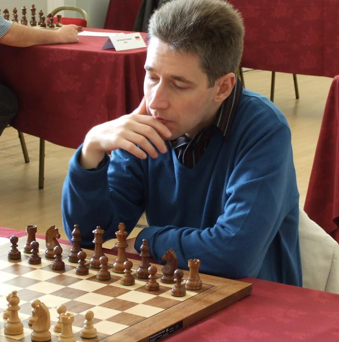 GM Michael Adams - Round 6 of 4th EU Individual Open Ch., Liverpool World Museum, William Brown Street